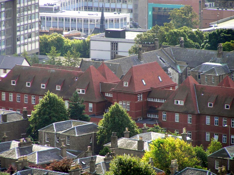 The Dundee Royal Infirmary from the Law